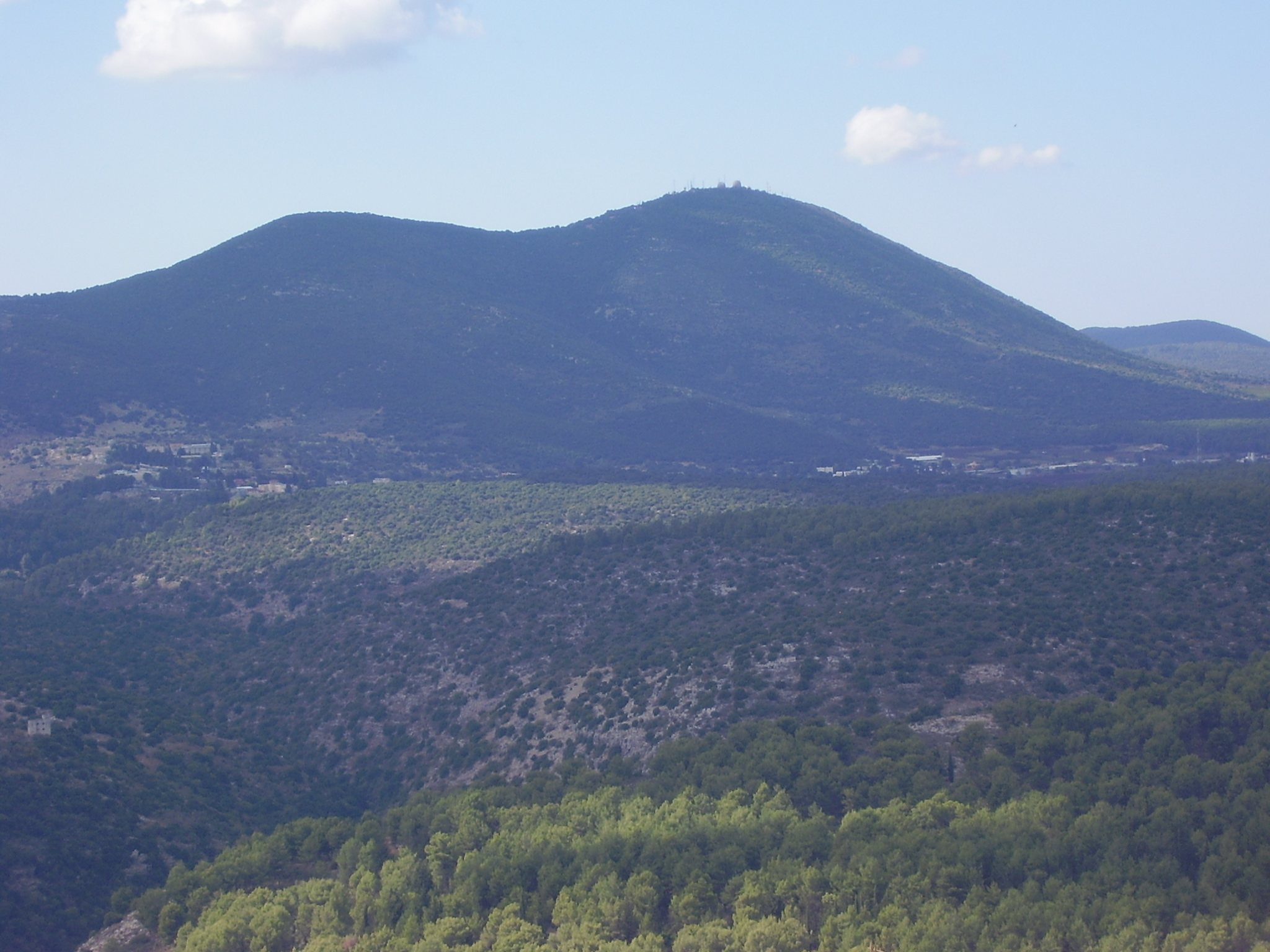 Mount Meron